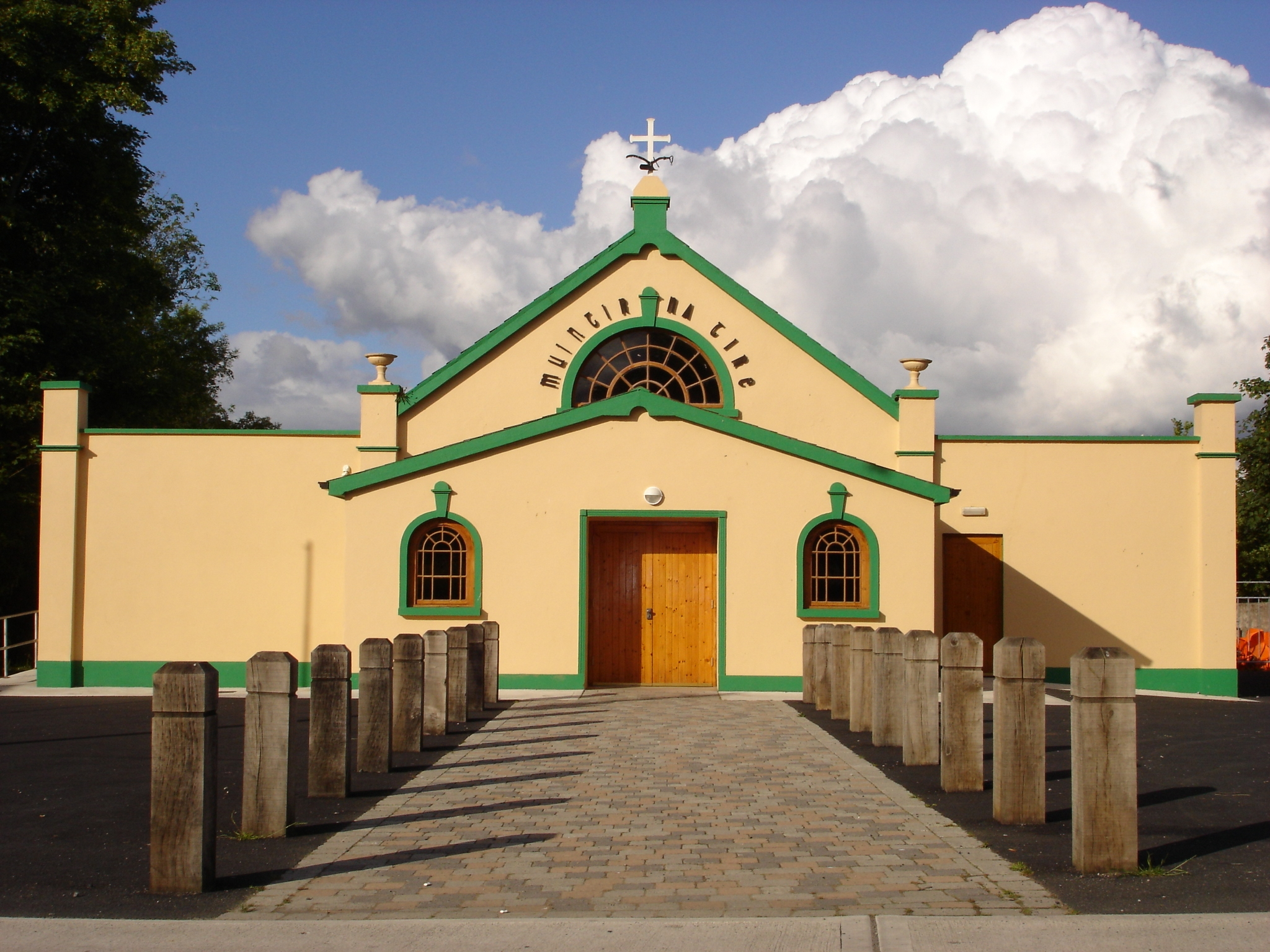 Townhall (Muintir_na_Tire_Murroe) of Murroe, Ireland